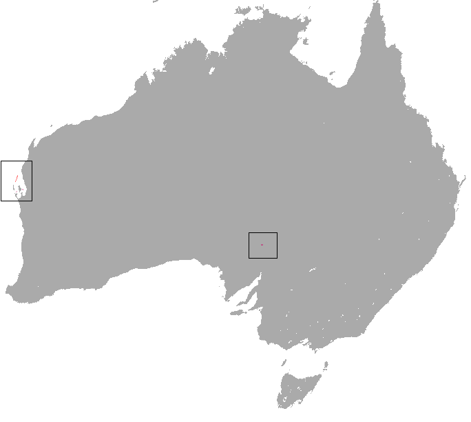 Western Barred Bandicoot (Perameles bougainville) range (red — native, pink — reintroduced)